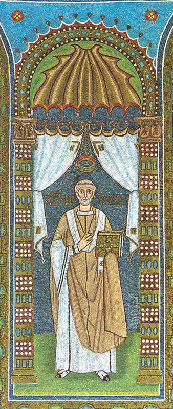 Mosaic portrait of Sant'Orso di Ravenna from Basilica di Sant'Apollinare in Classe (Ravenna)